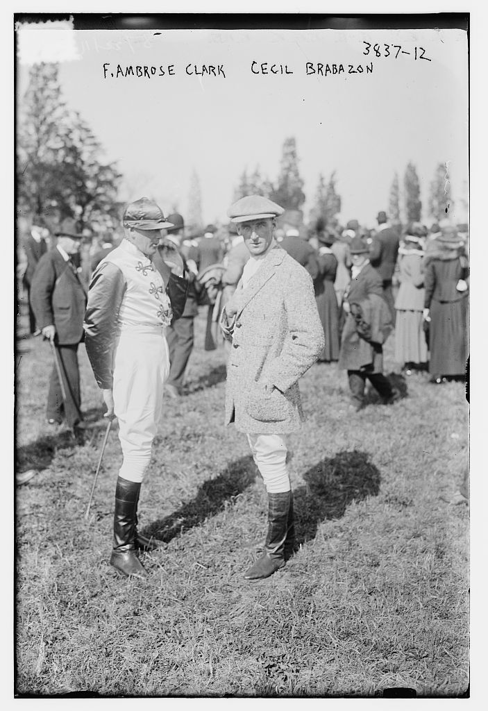 Frederick Ambrose Clark and Cecil Brabazon in 1916